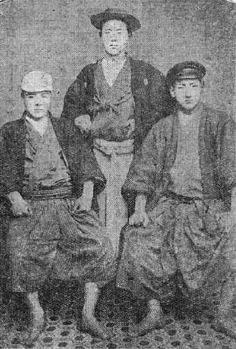 Three junior high students is... Left : Mitsuyo Maeda Center : Furukawa Right : Kiyoshi Oshikawa